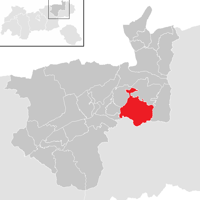 District Kufstein